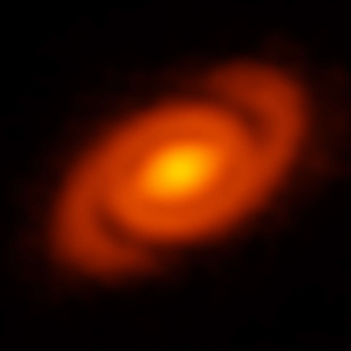 This beautiful image, captured with the Atacama Large Millimeter/submillimeter Array (ALMA) features a protoplanetary disc surrounding the young stellar object Elias 2-27, some 450 light years away. ALMA has discovered and observed plenty of protoplanetary discs, but this disc is special as it shows two distinct spiral arms, almost like a tiny version of a spiral galaxy. Previously, astronomers noted compelling spiral features on the surfaces of protoplanetary discs, but it was unknown if these same spiral patterns also emerged deep within the disc where planet formation takes place. ALMA, for the first time, was able to peer deep into the mid-plane of a disk and discovered the clear signature of spiral density waves. Nearest to the star, ALMA found a flat disc of dust, which extends to what would approximately be the orbit of Neptune in our own Solar System. Beyond that point, in the region analogous to our Kuiper Belt, ALMA detected a narrow band with significantly less dust, which may be an indication for planet in formation. Springing from the outer edge of this gap are the two sweeping spiral arms that extend more than 10 billion kilometers away from their host star. The discovery of spiral waves at these extreme distances may have implications on the theory of planet formation. Paper detailing Elias 2-27